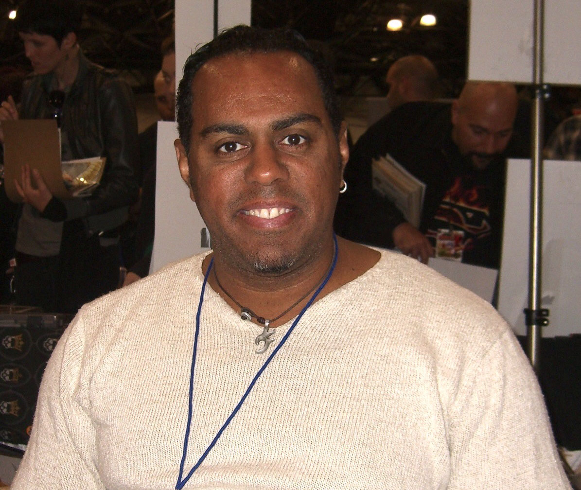 Comic book creator Georges Jeanty, at the New York Comic Convention in Manhattan, October 10, 2010. Photo by Luigi Novi. This photo may be used, modified and published for any purpose, only if a easily visible credit to the photographer is placed near the photo in each instance in which it is used. (See licensing information below.) Publication of this photo without this proper attribution constitute copyright infringement. For more information on my photos, you can contact me here.